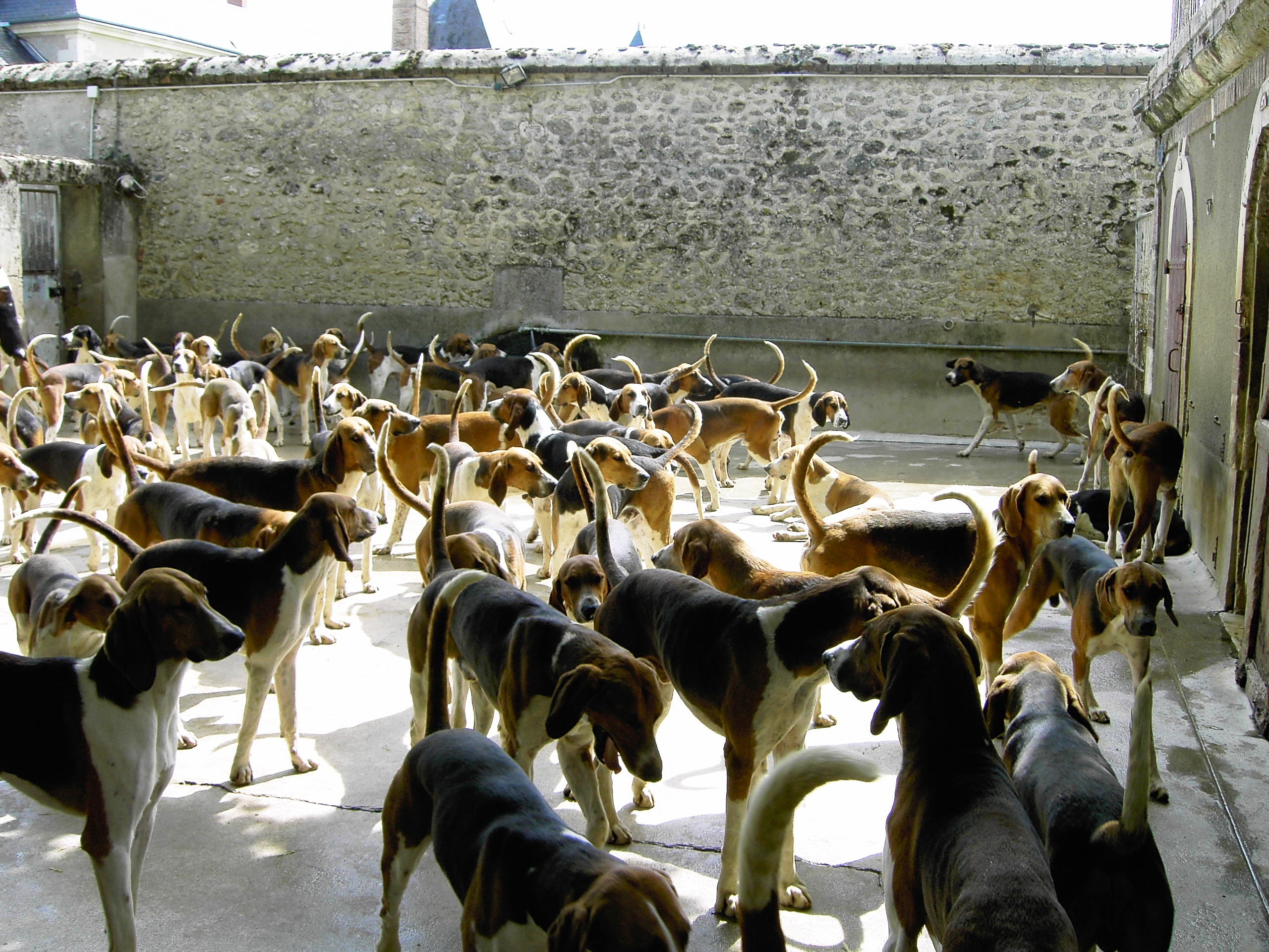 Château de Cheverny shot of the Hunting dogs